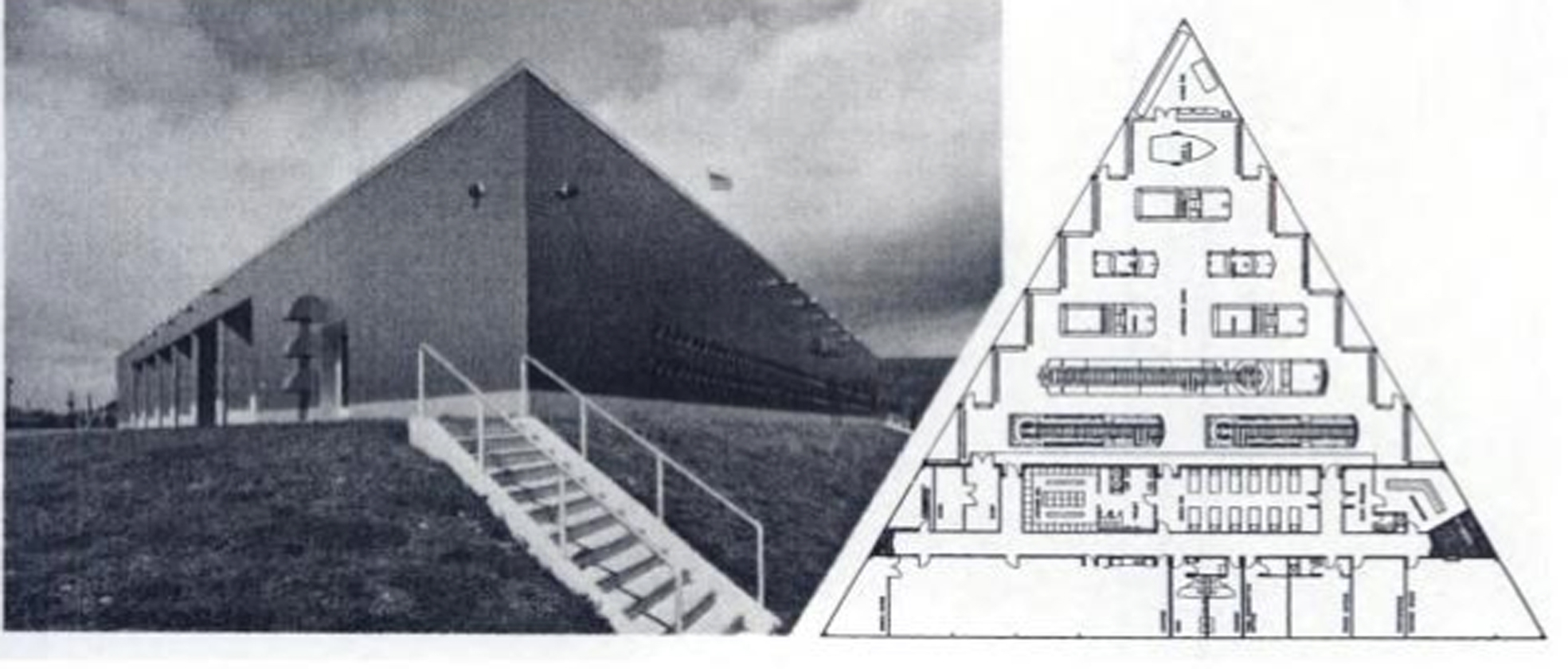 Floorplan